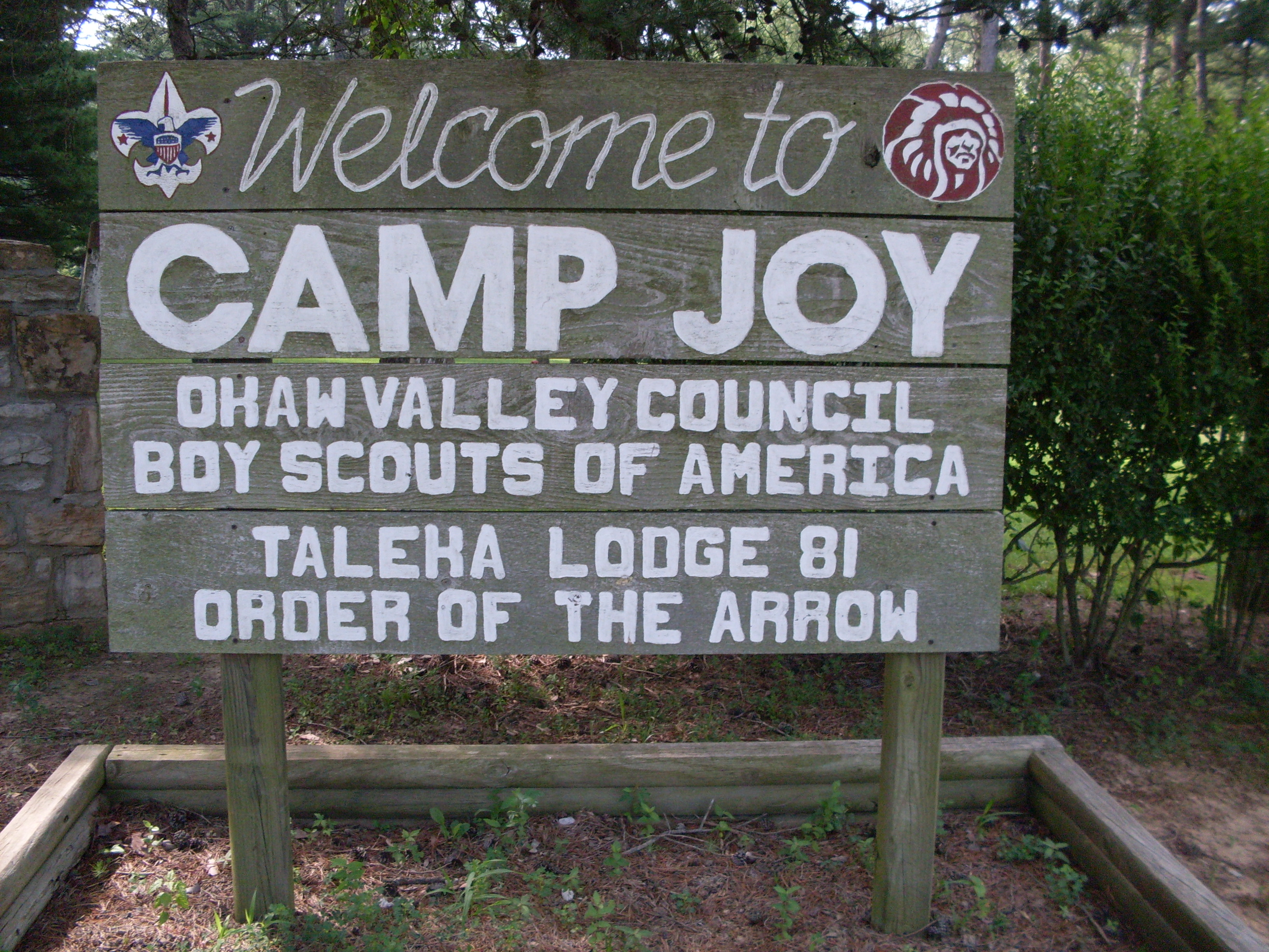 Entrance to Camp Joy, Carlyle, part of the former Okaw Valley Council